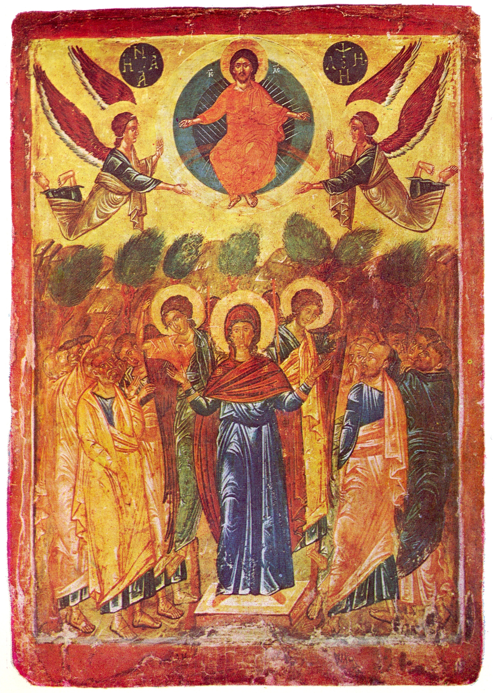 "Christ Ascension", icon from Michurin, Bulgaria, 16 century. Doublesided, on the back: "Virgin with Christ", 98/68 cm, Burgas art gallery.